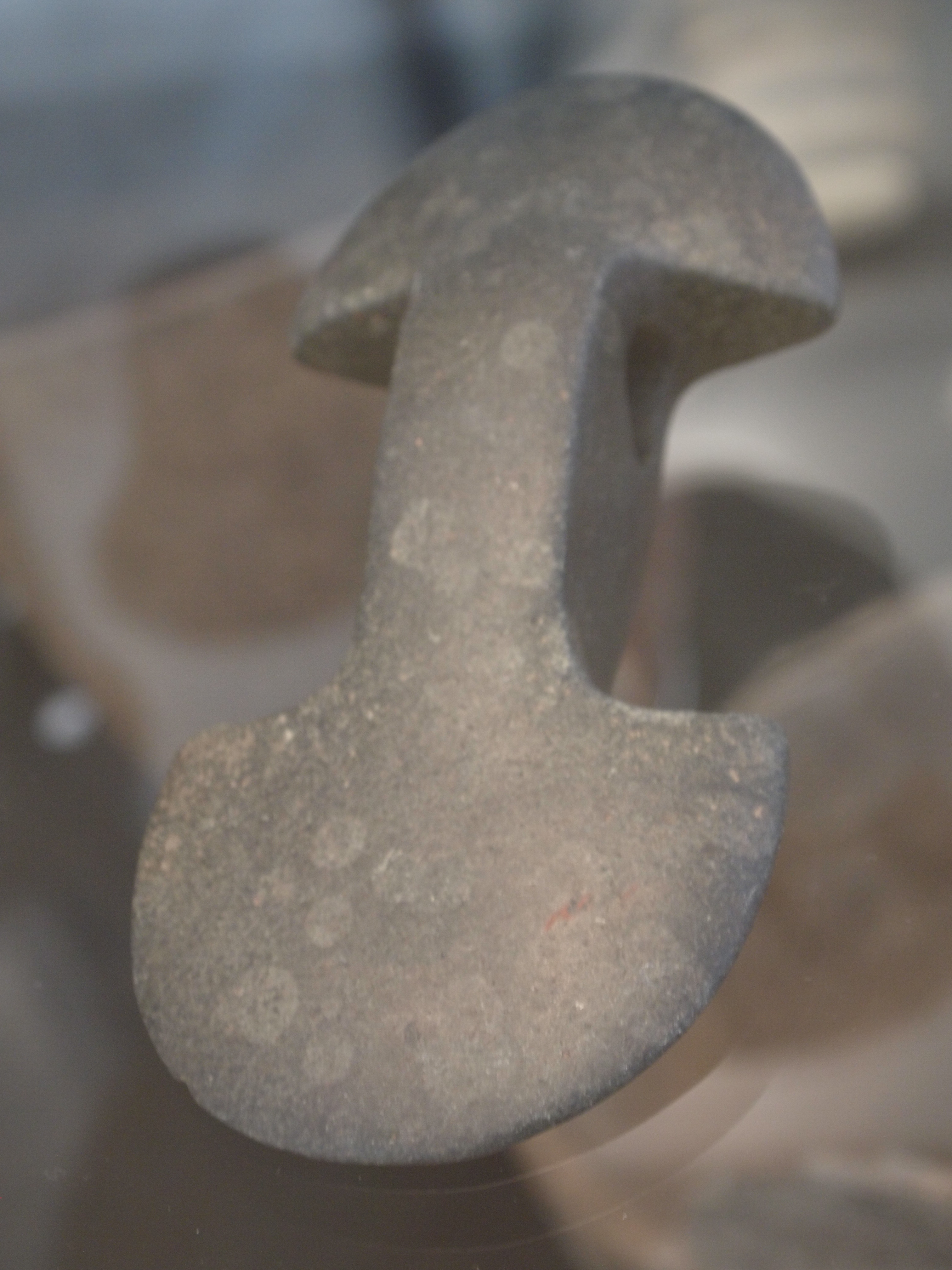 Pictures taken at the National Museet - The National Museum - Copenhagen Denmark during the Wikipedia Loves Nationalmuseet